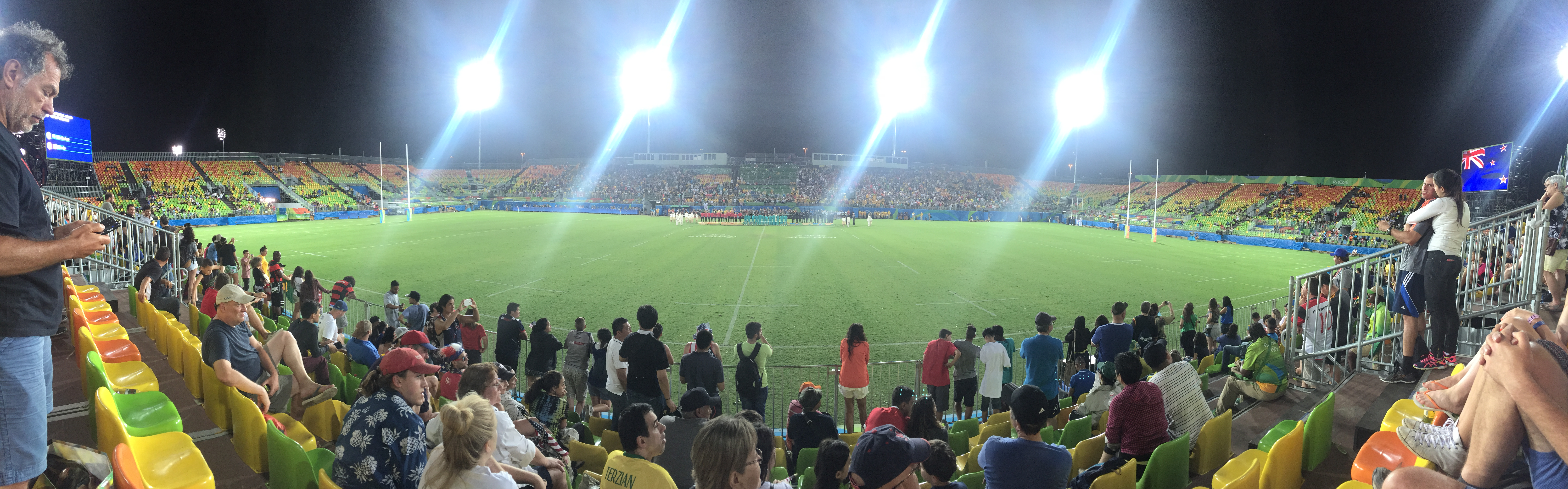 Rio 2016 Olympics - Women's rugby Stevens final